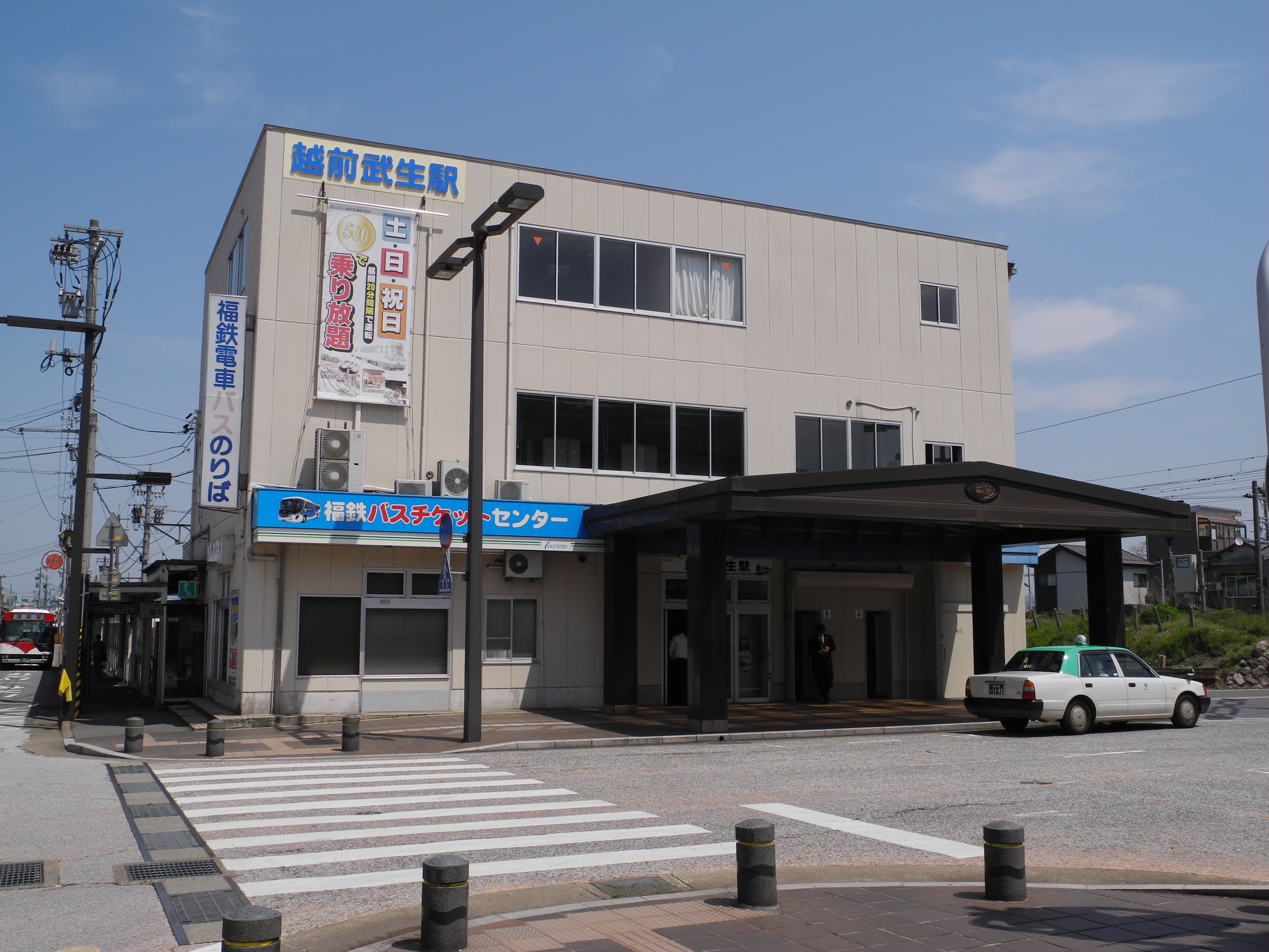 Fukui Railway Echizen-Takefu Station